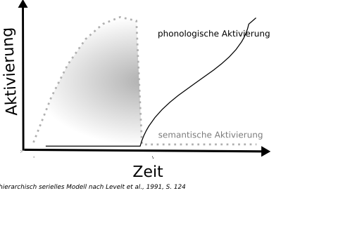 linguistics : serial activation model